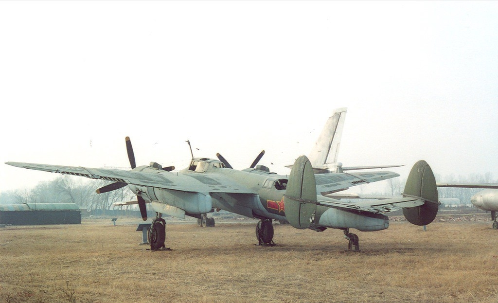 Tupolev Tu-2 (China Aviation Museum)